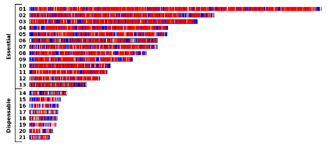 The 21 chromosomes of the Mycosphaerella graminicola genome drawn to scale. Red indicates regions of single-copy sequence; repetitive sequences are in shown blue. Chromosome 1 is almost twice as long as any of the others. The core chromosomes 1–13 are the largest. Dispensable chromosomes 14–21 are smaller than the core chromosomes and have a higher proportion of repetitive DNA as indicated by the blue bands.